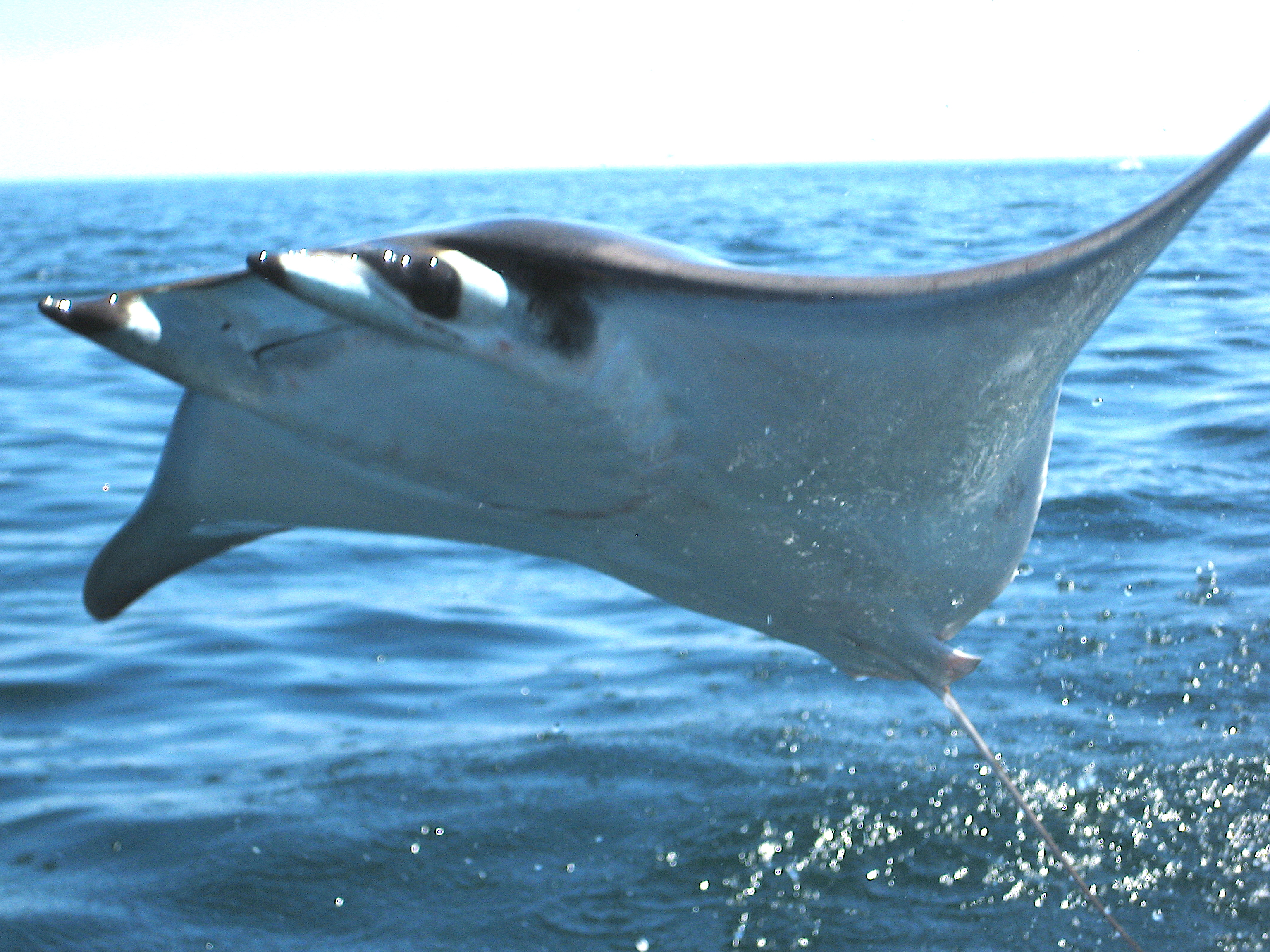 Breaching Mobula ray Schools of giant bat rays (Actually a Mobula) jumping off the shore in Cabo Pulmo, Baja California Sur. Check out for a video from the same spot.